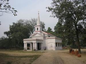 Aligarh Church